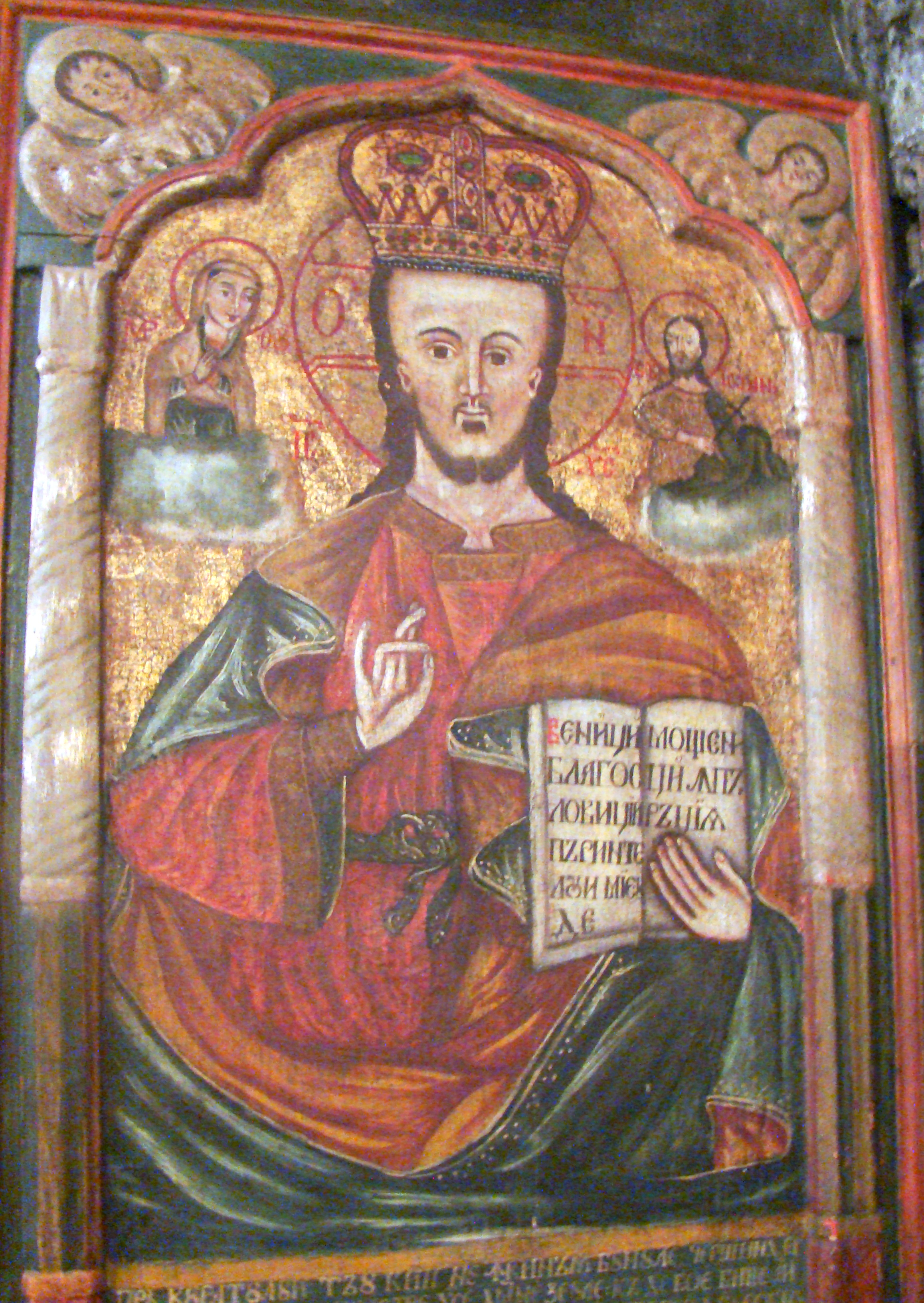 Saint Nicholas church in Hunedoara, Hunedoara county, Romania